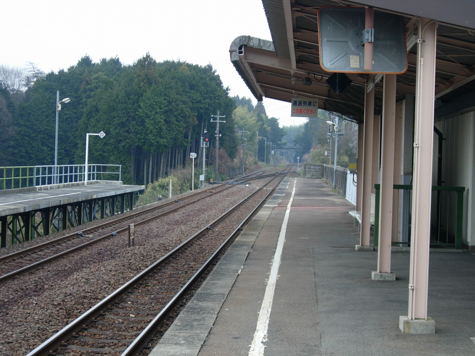 Nakaseko Station